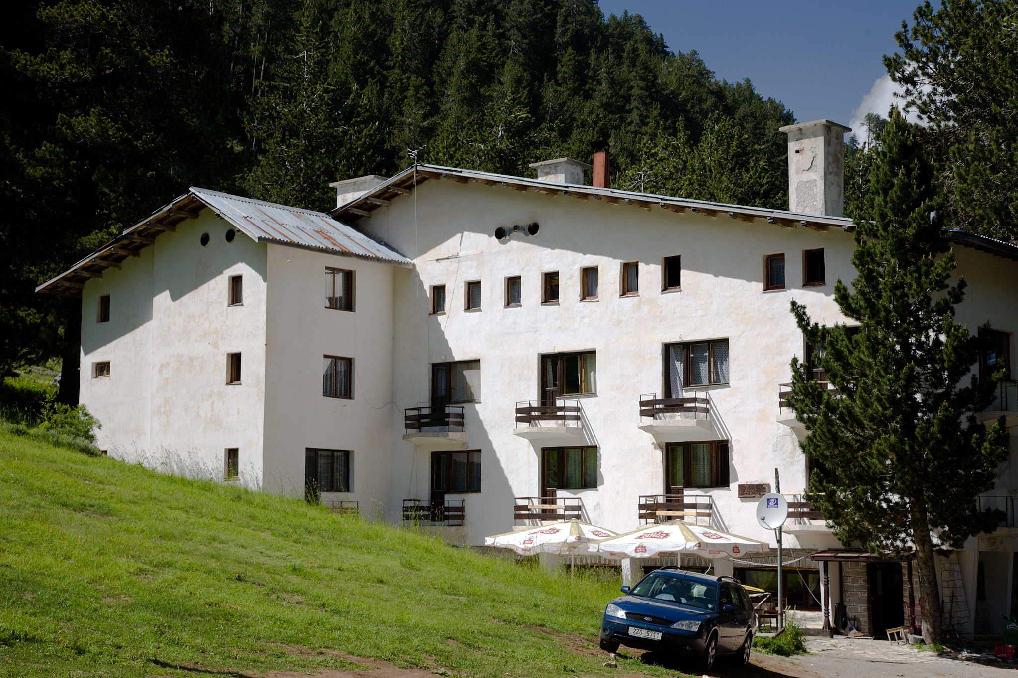 Bunderica refuge in Northern Pirin Mountain, SW Bulgaria